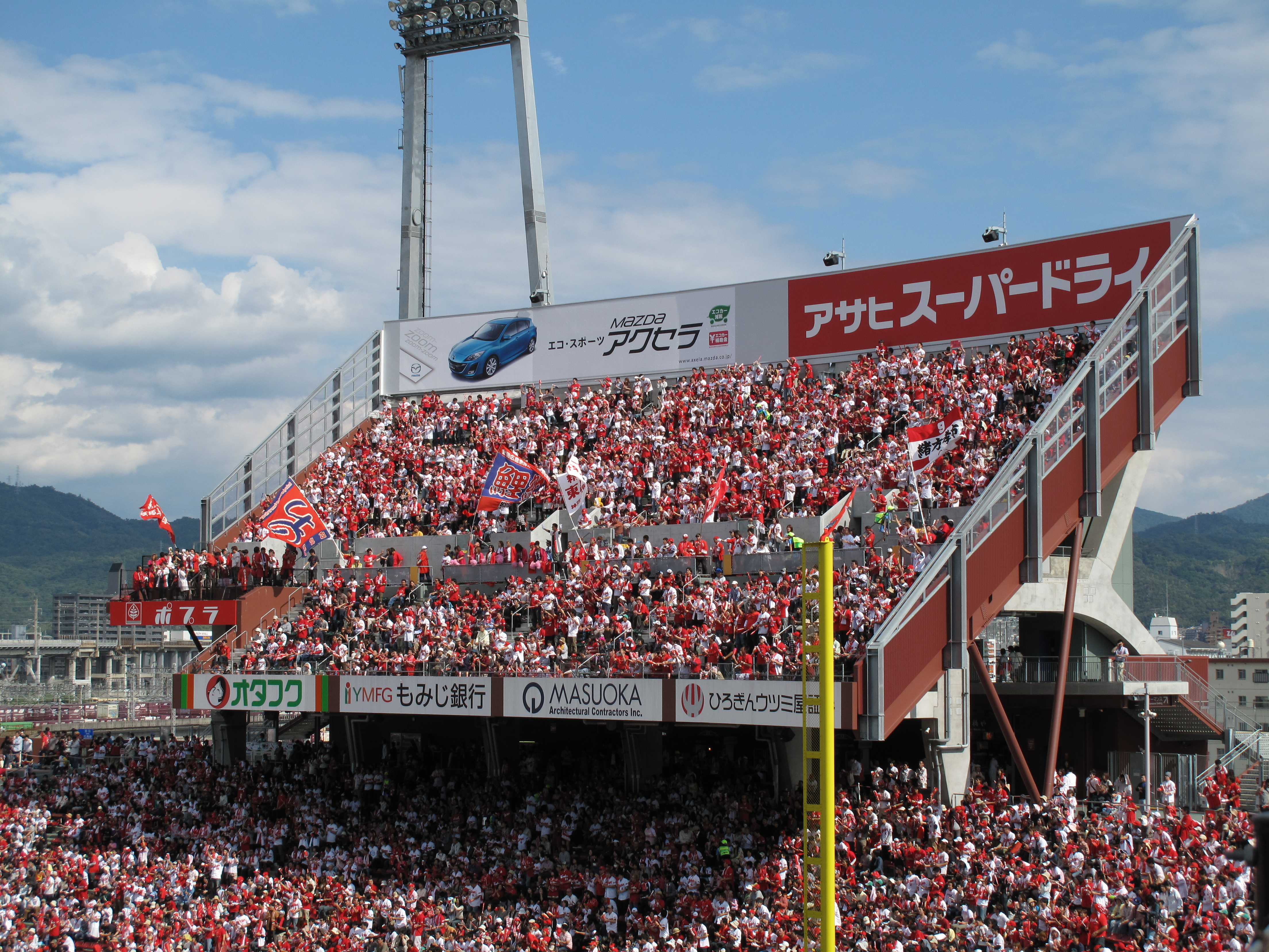 The area on which cheerleaders of Hiroshima Toyo Carp act is a performance seat. They are enthusiastically assisting in Carp in this area.